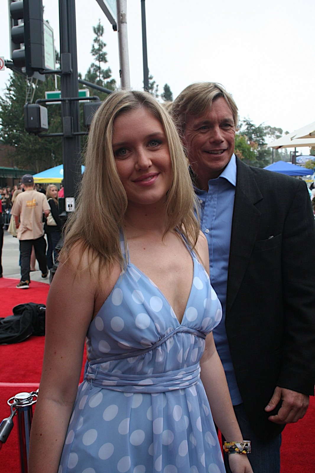 American actors Brittney Bomann and her father Christopher Atkins, on the red carpet at the 62nd Annual Mother Goose Parade in San Diego County. Photograph by Mother Goose Parade / Popular Press Media Group (PPMG) - . For more...